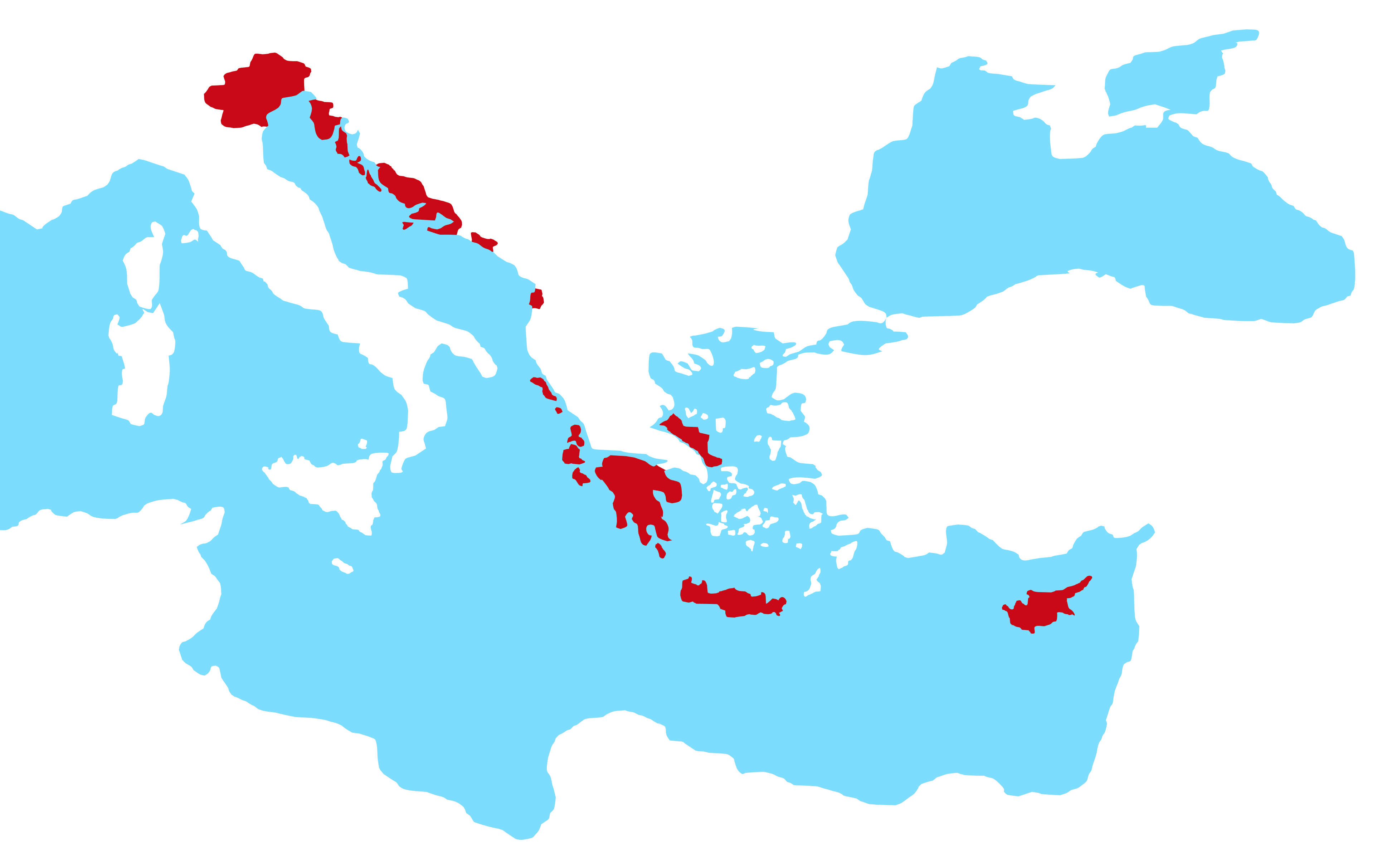 מפת המציגה את השטחים העיקריים עליהם שלטה הרפובליקה של ונציה לאורך שנות קיומה.